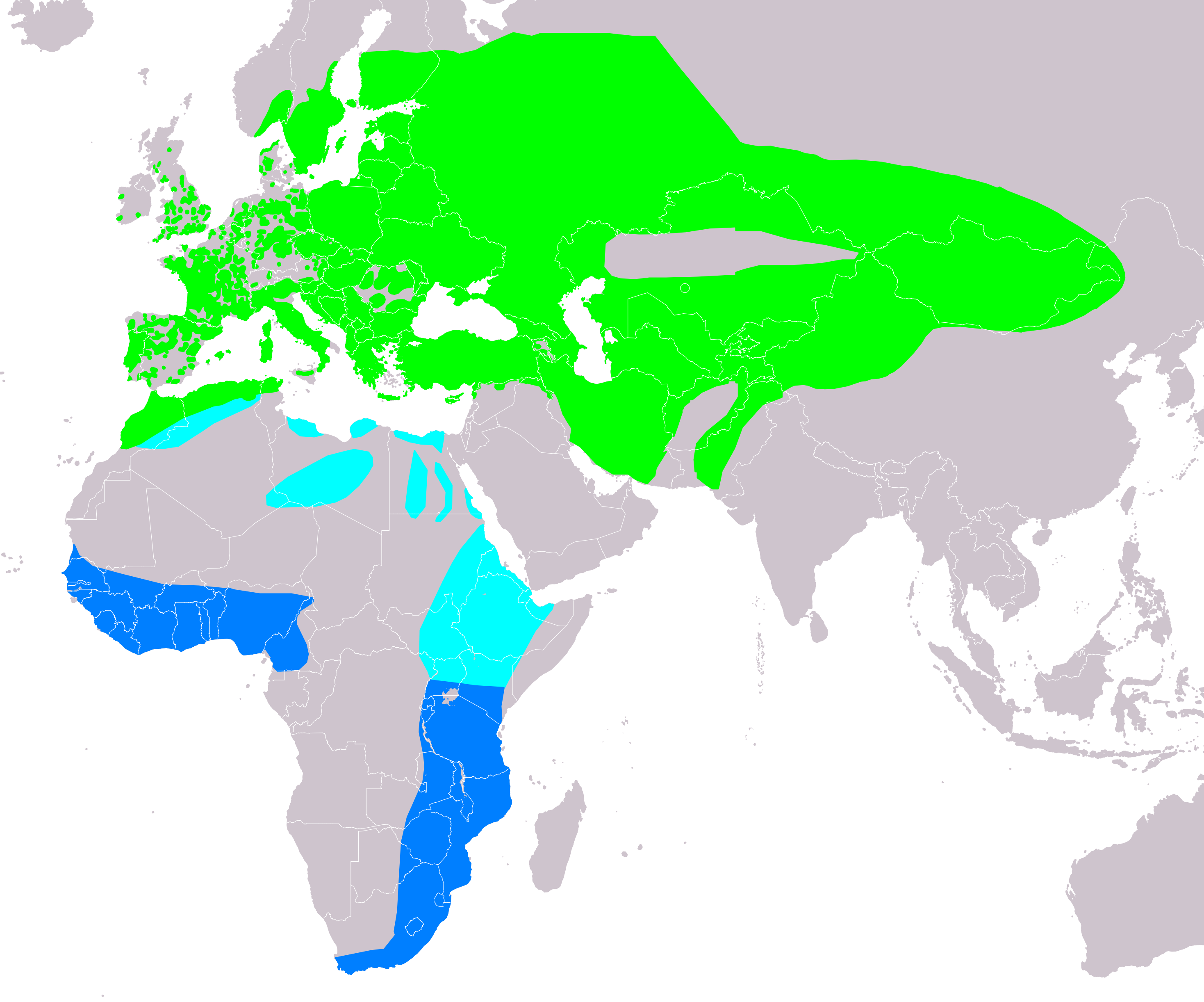 Distribution map of european nightjar (Caprimulgus europaeus) according to IUCN version 2019-2 ; key: Legend: Extant, breeding (#00FF00), , Extant, passage (#00FFFF), Extant, non-breeding (#007FFF)